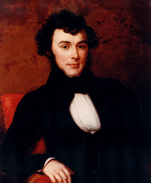 Portrait of George Washington Adams (1801-1829), son of John Quincy Adams, by Charles Bird King C. 1820s. On exhibit in Brooks Adams' Bedroom of the Old House.